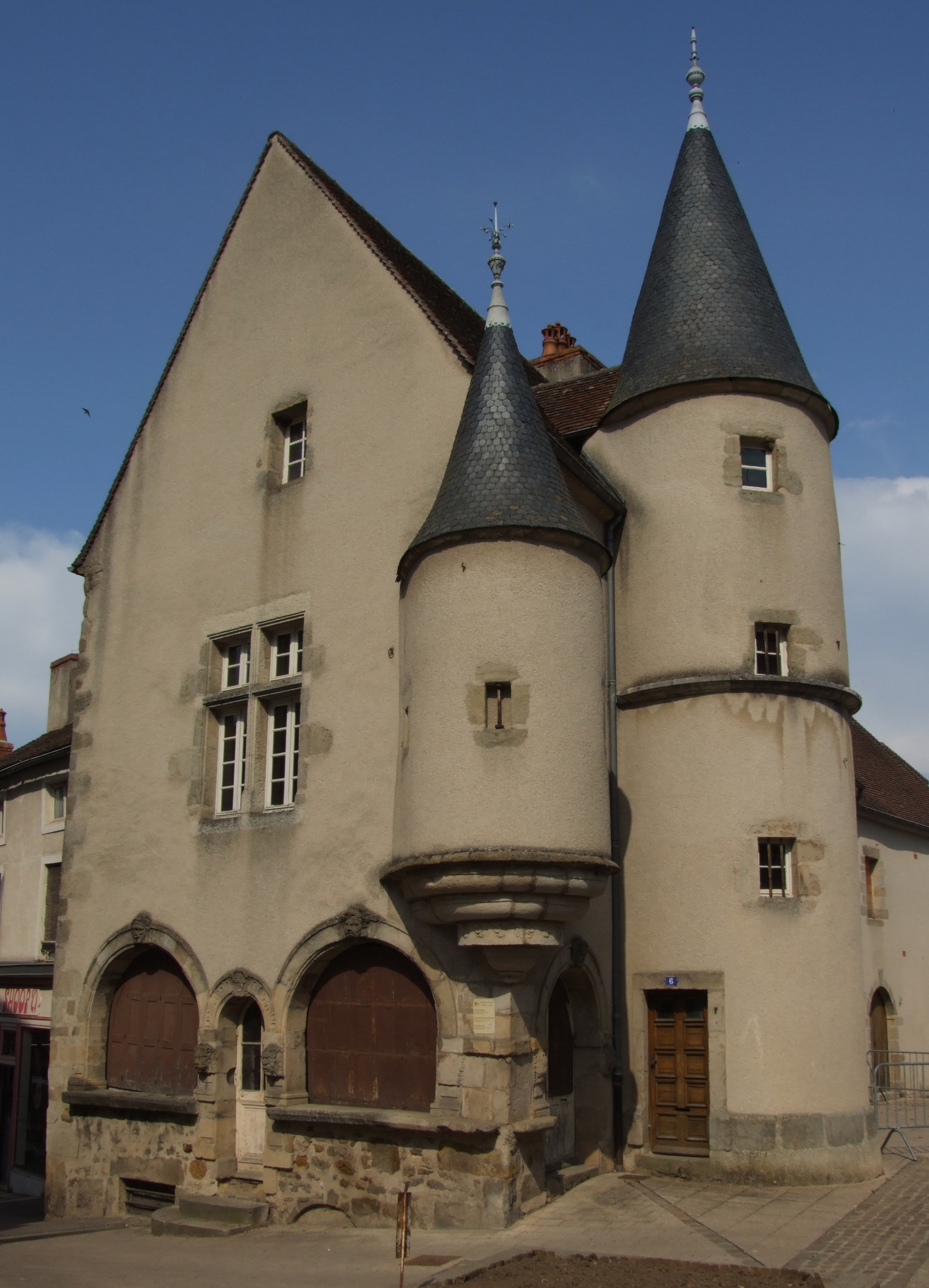 Arnay-le-Duc, Burgundy, FRANCE